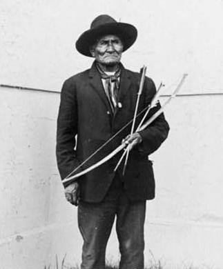 Apache chief Geronimo, photographed at the St. Louis World's Fair in 1904 by William H. Rau. This image has been cropped from a stereo card found here.